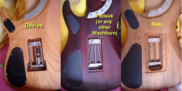 Differences between Davies and Washburn N4s back cavities shapes